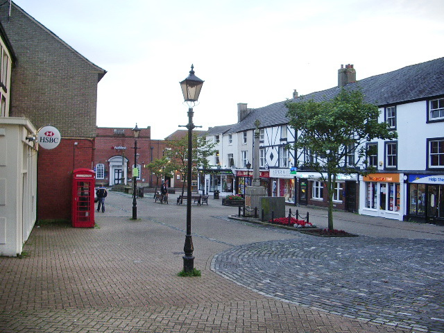 Market Place, Poulton-le-Fylde